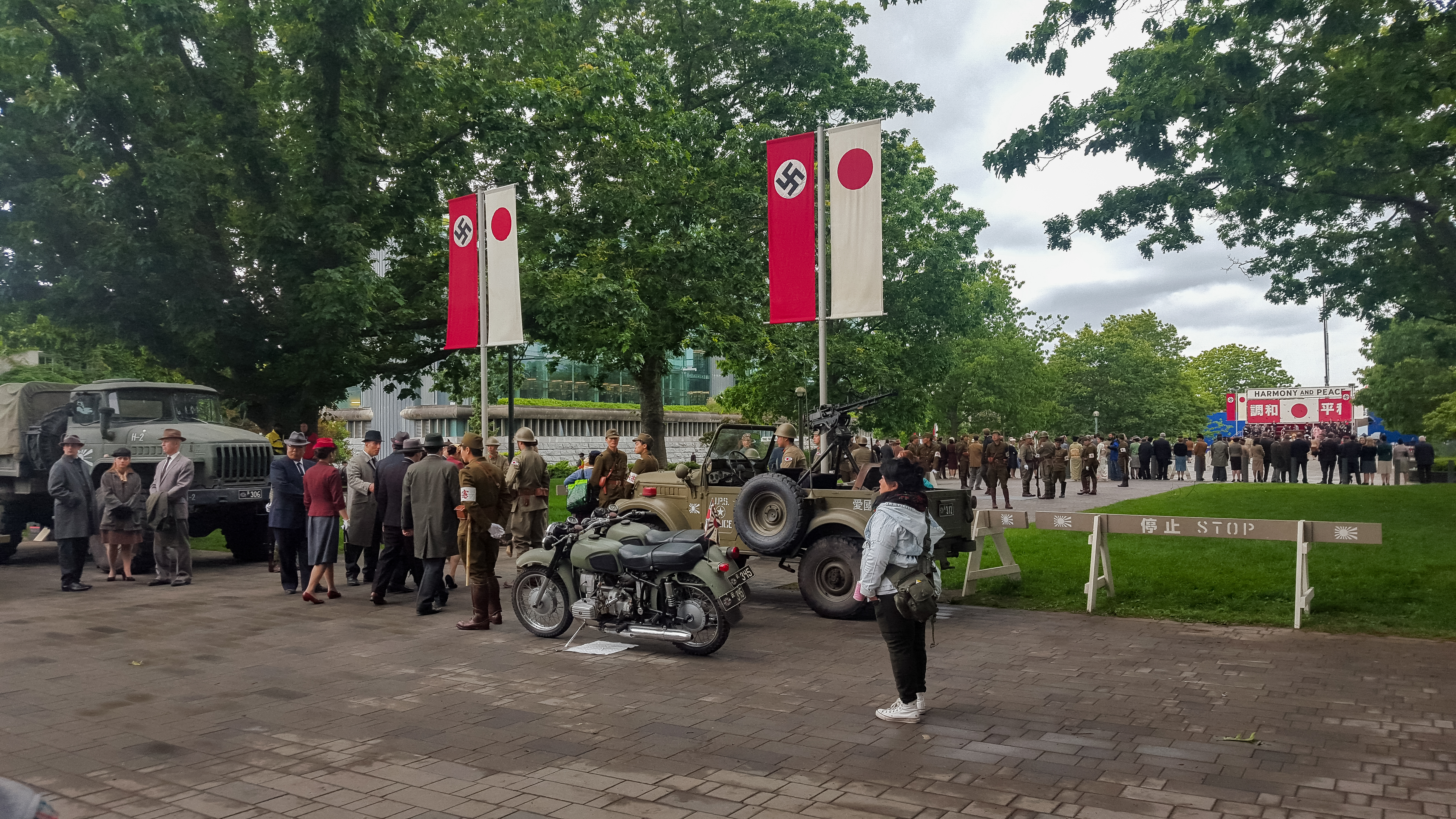 Filming of "The Man in the High Castle" at the University of British Columbia